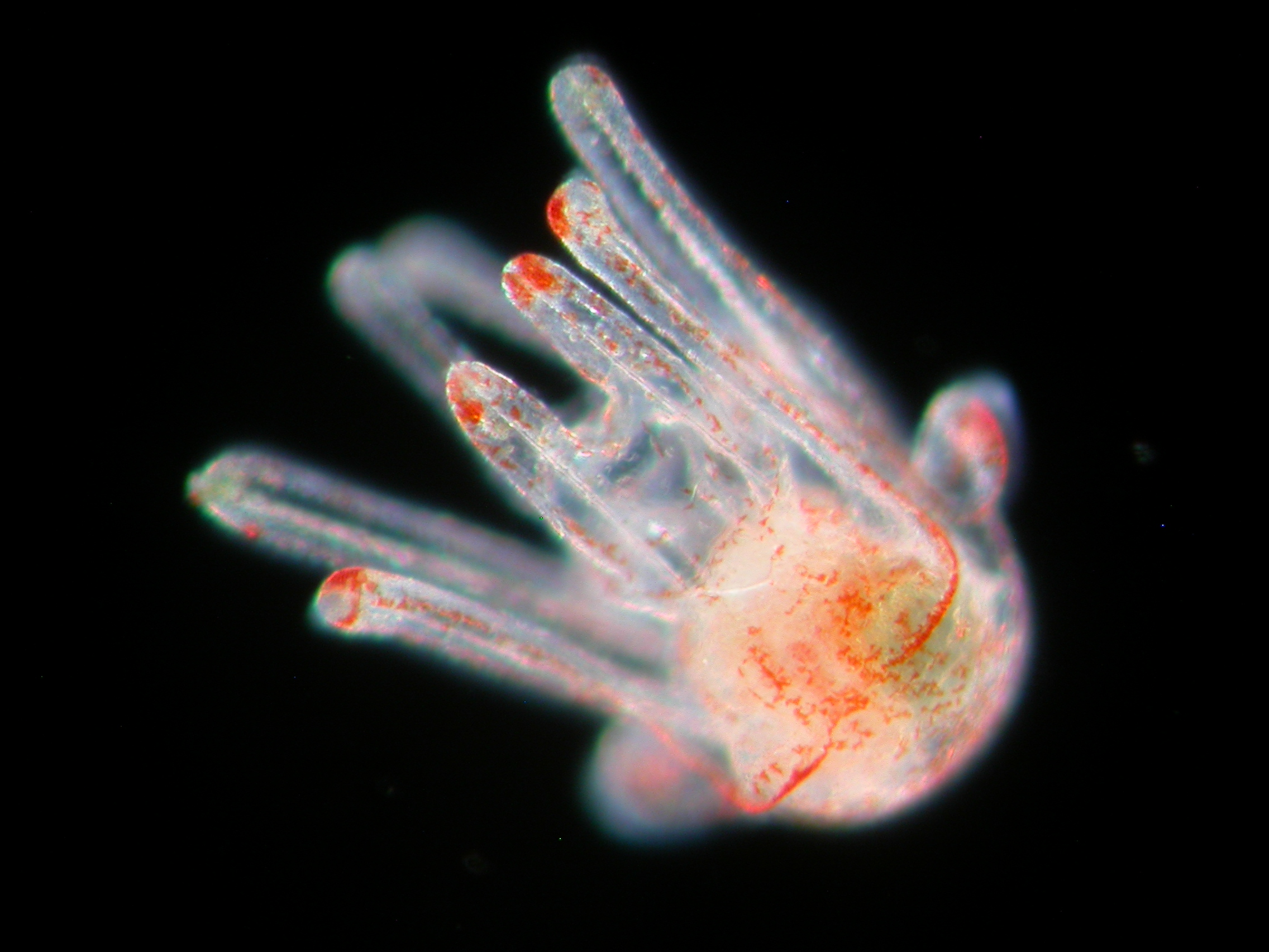 Pluteus larva of the sea biscuit Clypeaster subdepressus with a growing juvenile rudiment in the left side.